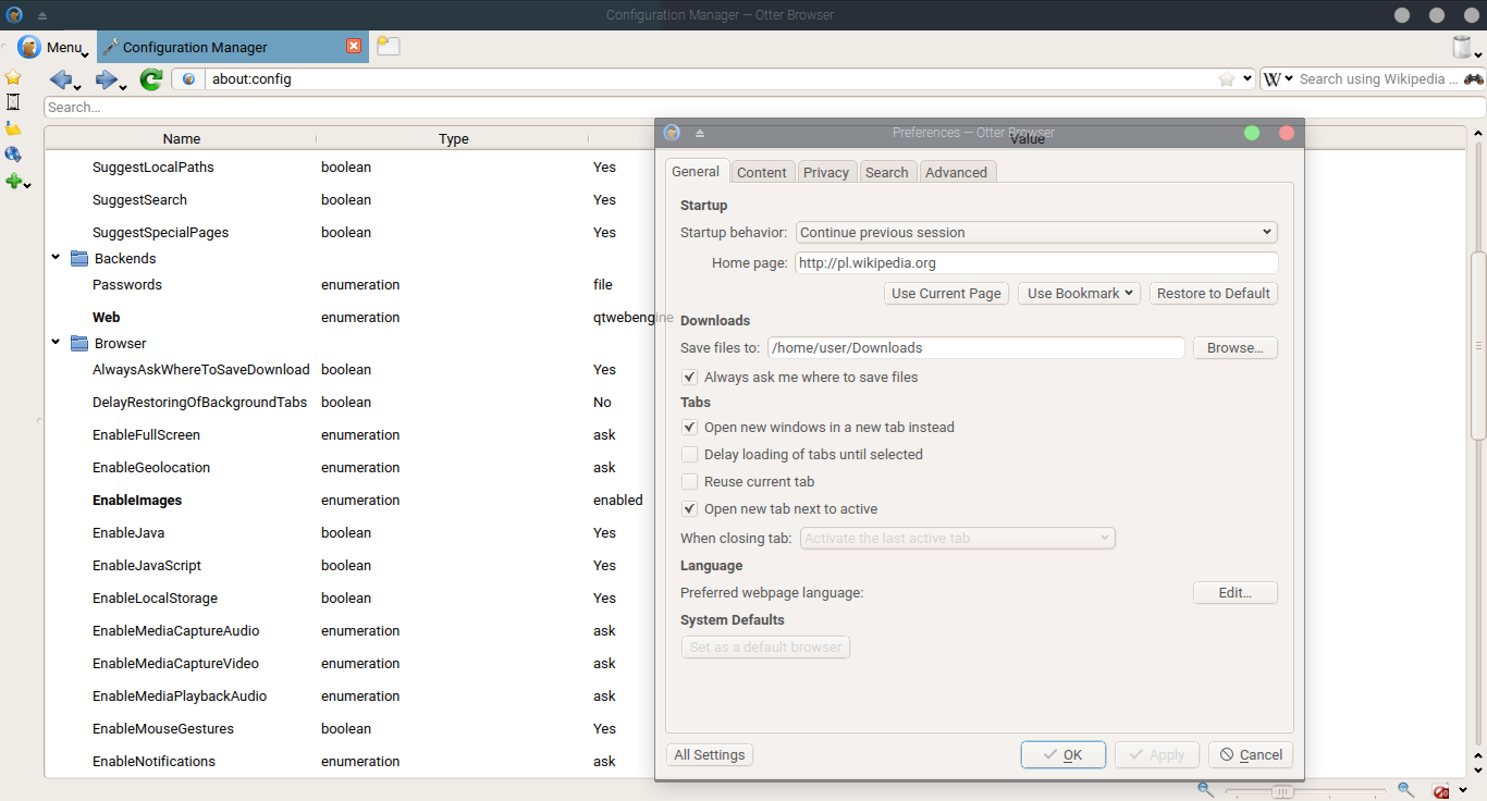 This photo shows Configuration Manager and Preferences dialog in Otter Browser (0.9.12)